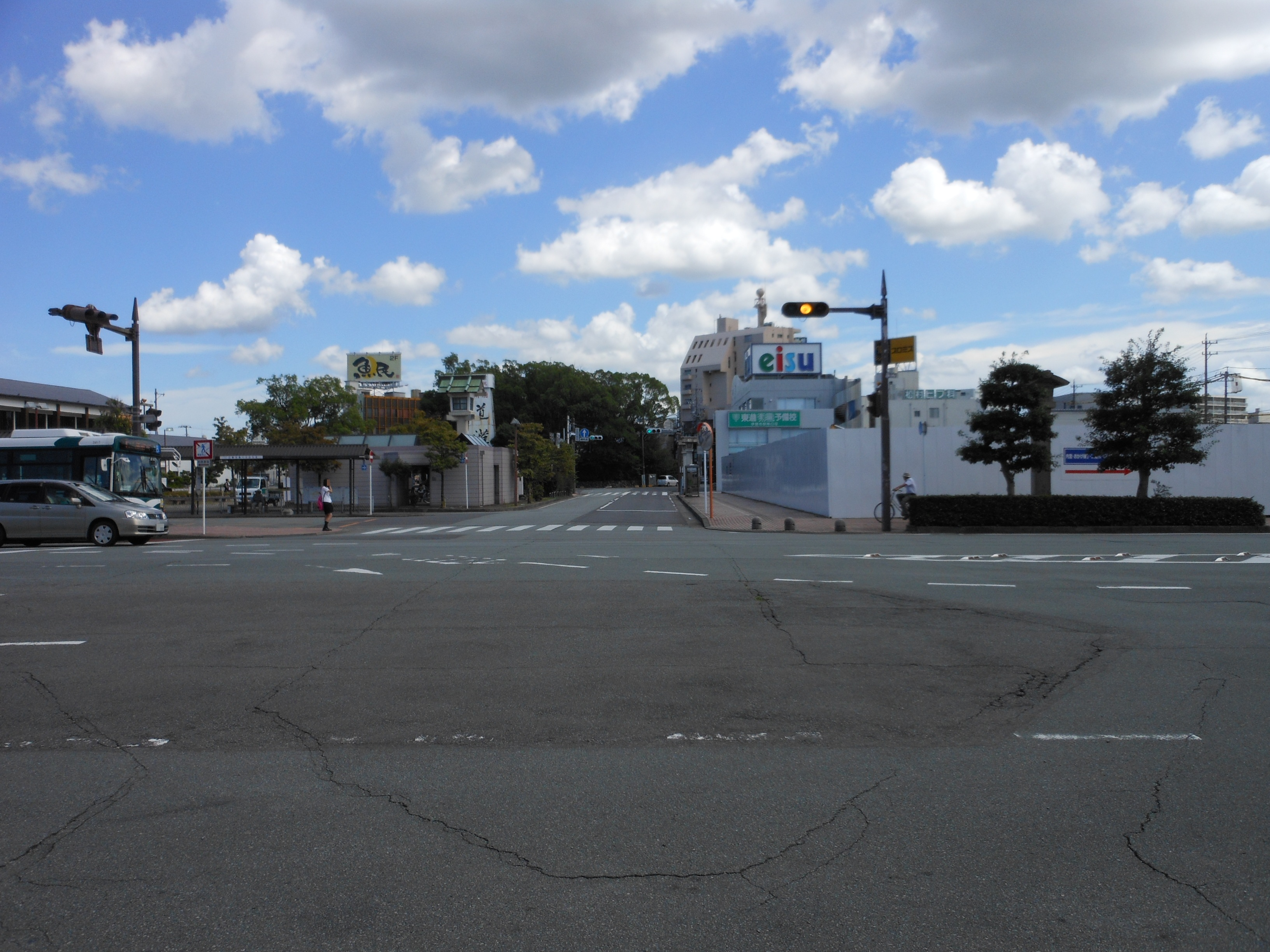 The Iseshi Station West Intersection, end point of the Mie Prefectural Road Route 201 (Ujiyamada-ko Iseshi Teishajo Line)